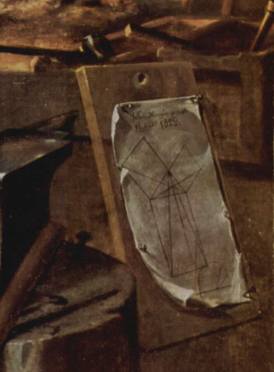 Detail of Pat Lyon at the Forge (1829), Pennsylvania Academy of the Fine Arts, Philadelphia, Pennsylvania, showing John Neagle's signature and the Pythagorean theorem.